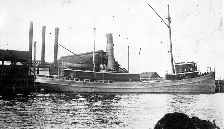 Fishing vessel G. H. McNeal prior to her United States Navy service as patrol vessel USS G. H. McNeal (SP-312)